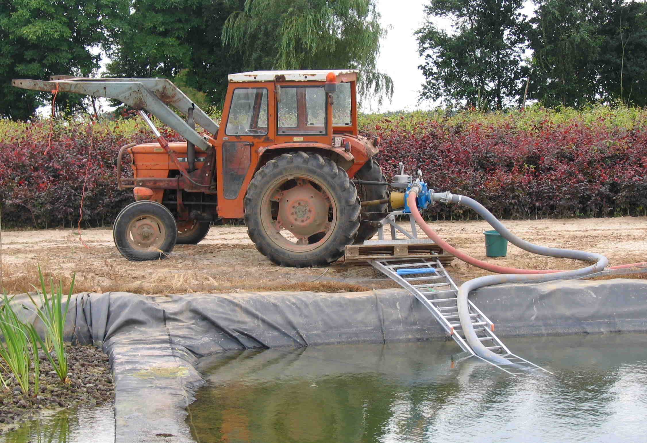 A picture of a Fiat tractor powering a waterpump, which is used to pressurize water and send it to a automated sprinkler/self-unrolling irrigation reel system (not shown). Note that the reel (not shown) automatically reels in the waterhose on which the sprinkler is mounted. The sprinkler is also automated to move its waterbeam left to right (by pivoting), and the whole system is thus capable of irrigating a plot of land. See the AutomaticallyOperatingReel-image to see the reel with sprinkler. Note that the tractor shown still runs on fossil fuels, yet were the tractor to use biobutanol or biodiesel, the tractor/water pumping would be very environmentally friendly aswell (besides being easily movable).